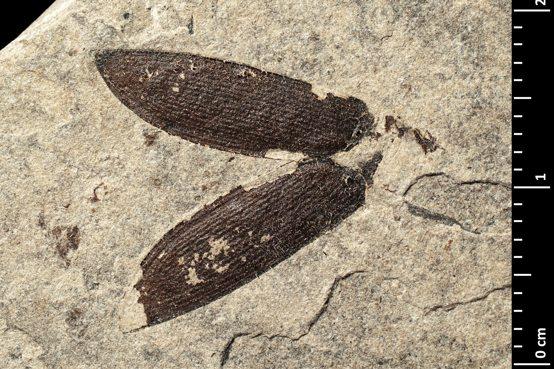 The Carabus neli holotype specimen with direct lighting. Turolian, Miocene; Montagne d'Andance, Saint-Bauzile, Privas, France Muséum national d'Histoire naturelle specimen MNHN.F.A40895